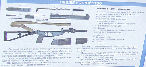 AS Val assault rifle (Field strip)